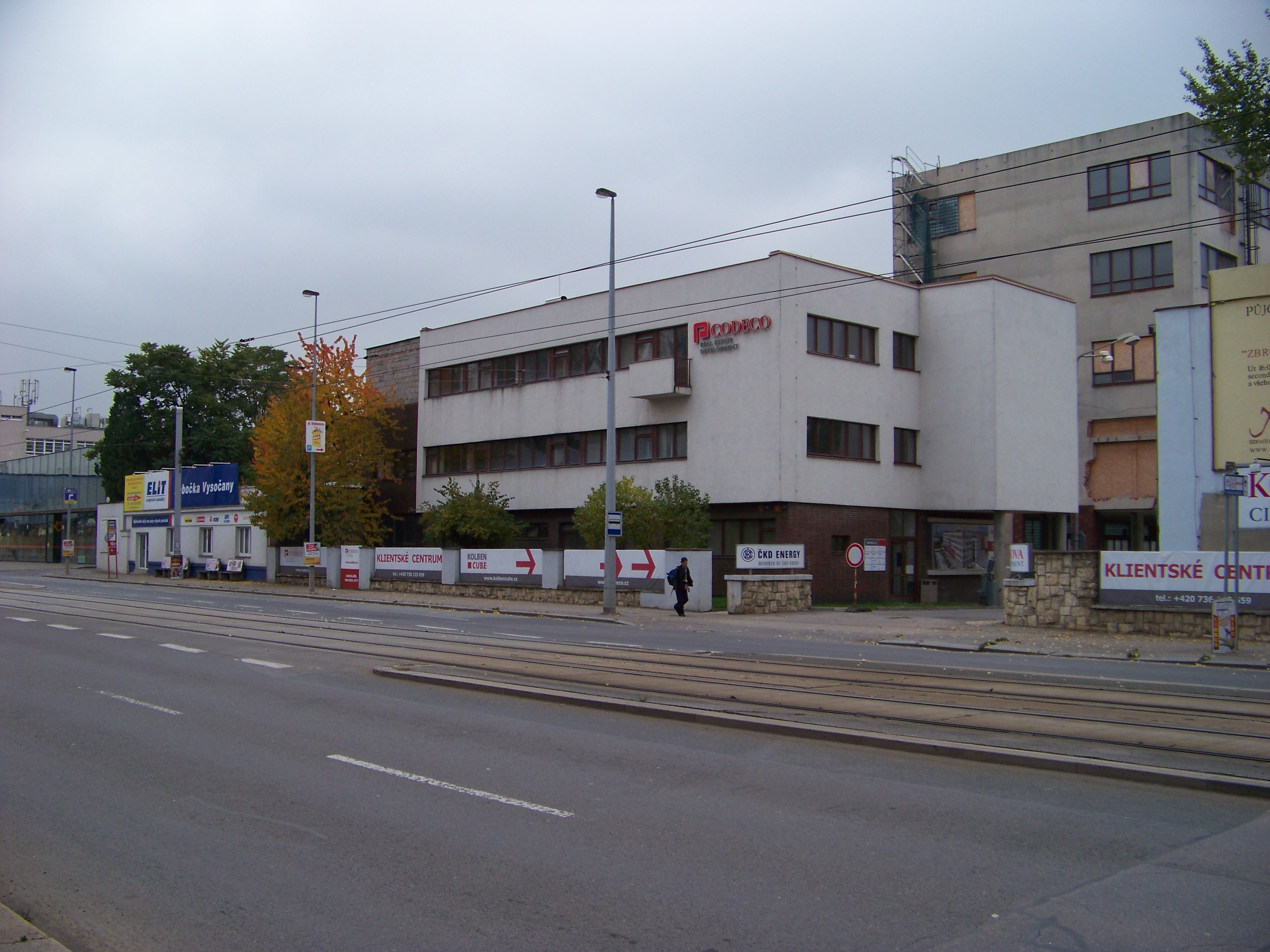 Prague-Vysočany, the Czech Republic. Kolbenova 609/38, former gatehouse of AGA factory.